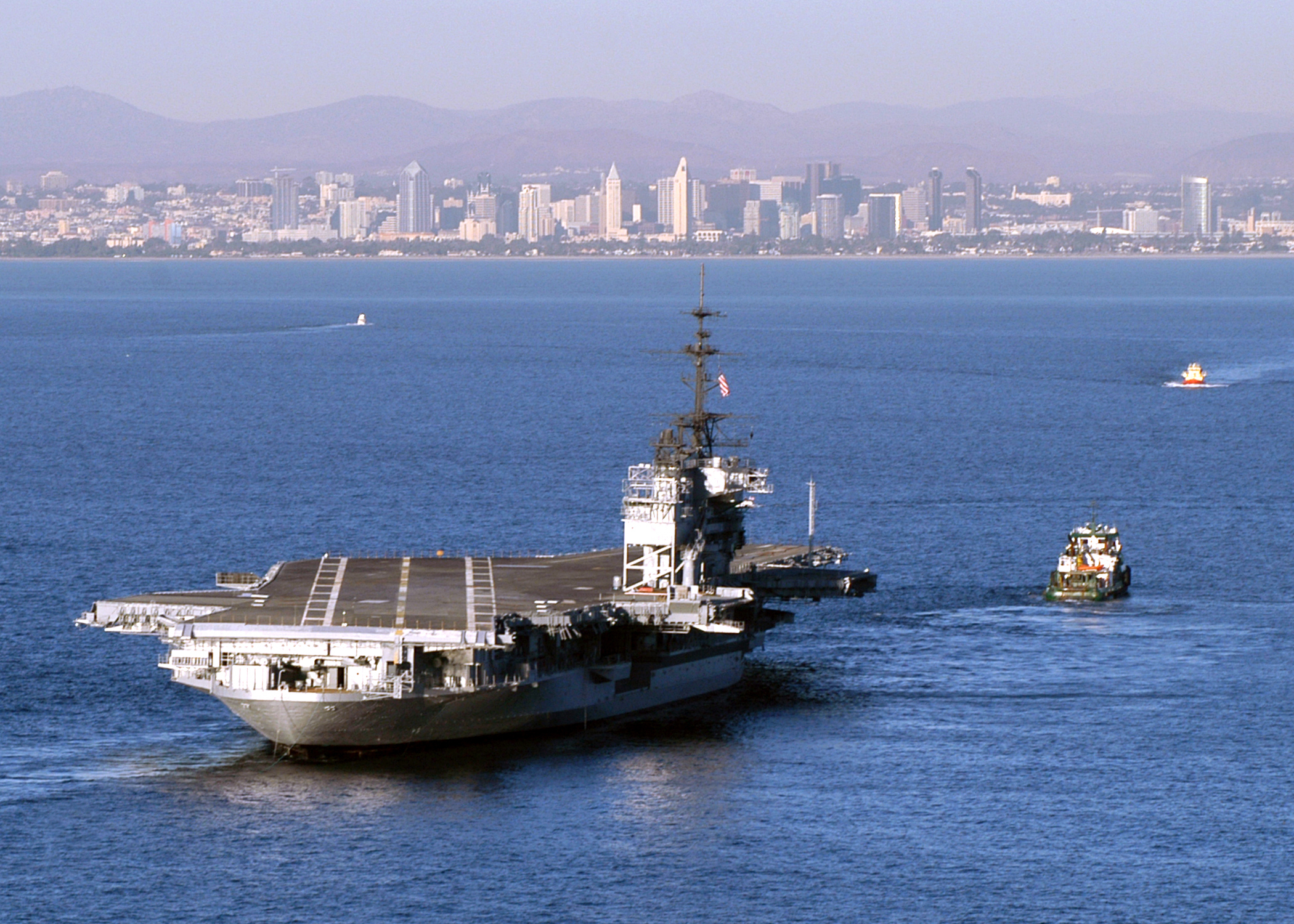 San Diego, Calif. (January 5, 2004) -- A tugboat tows the decommissioned aircraft carrier Midway into San Diego bay. Midway will be moored temporarily at Naval Air Station North Island, Calif., to take-on restored historical aircraft and will soon be homeported across the bay in San Diego, as the centerpiece for our nation's biggest museum devoted to carriers and naval aviation. When commissioned on September 10, 1945 as USS Midway (CVB-41) she was the largest carrier ever put to sea. For more information on her history with the U.S Navy go to the following link: . U.S. Navy photo By Photographer's Mate Airman Rebecca J. Moat. (RELEASED)